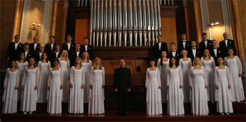 Academic Chorus of Kharkov Philharmonic, Ukraine